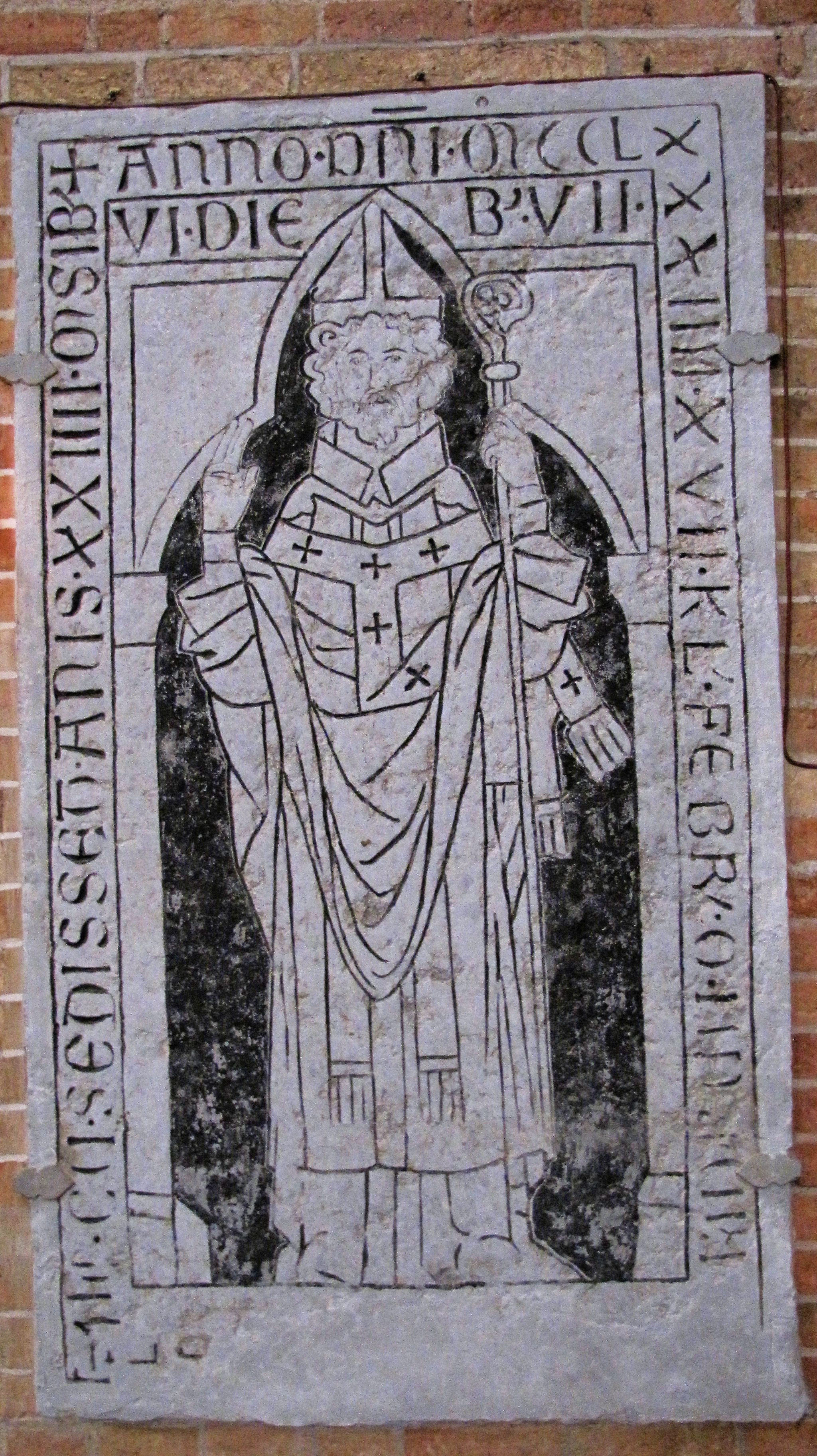 Gravestone of bishop Ulrich von Blücher (1254) in Ratzeburg cathedral